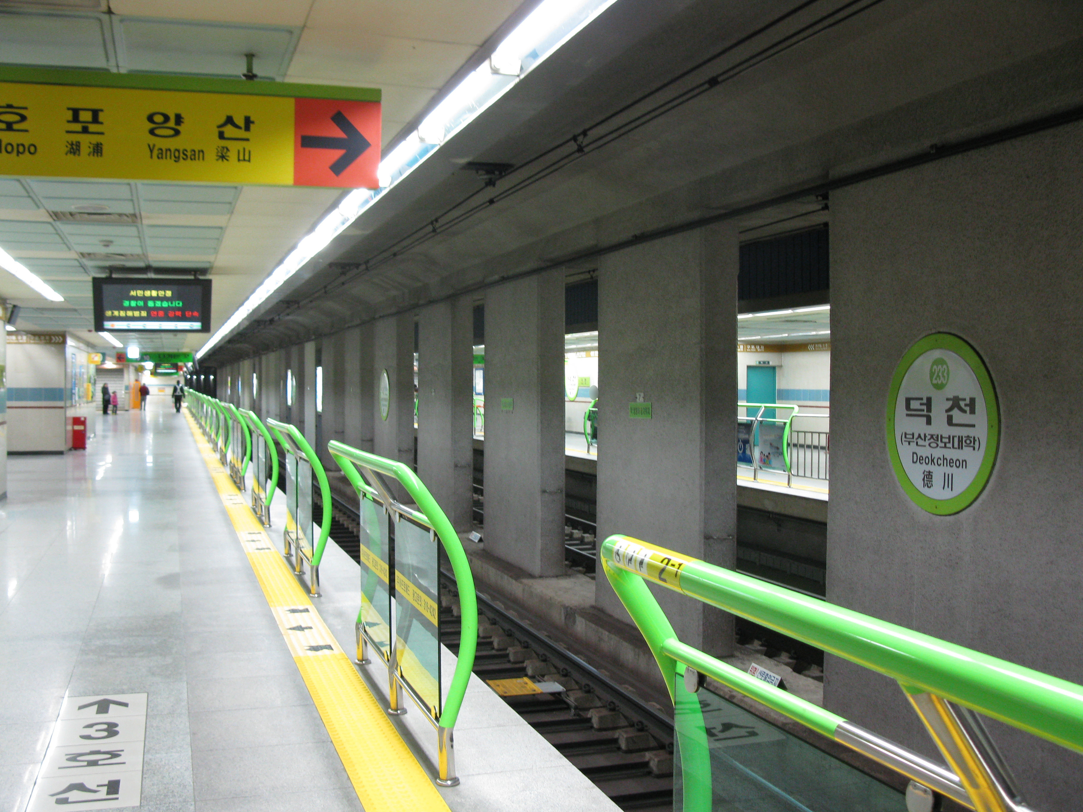 Deokcheon Station platform (Busan Subway Line 2)